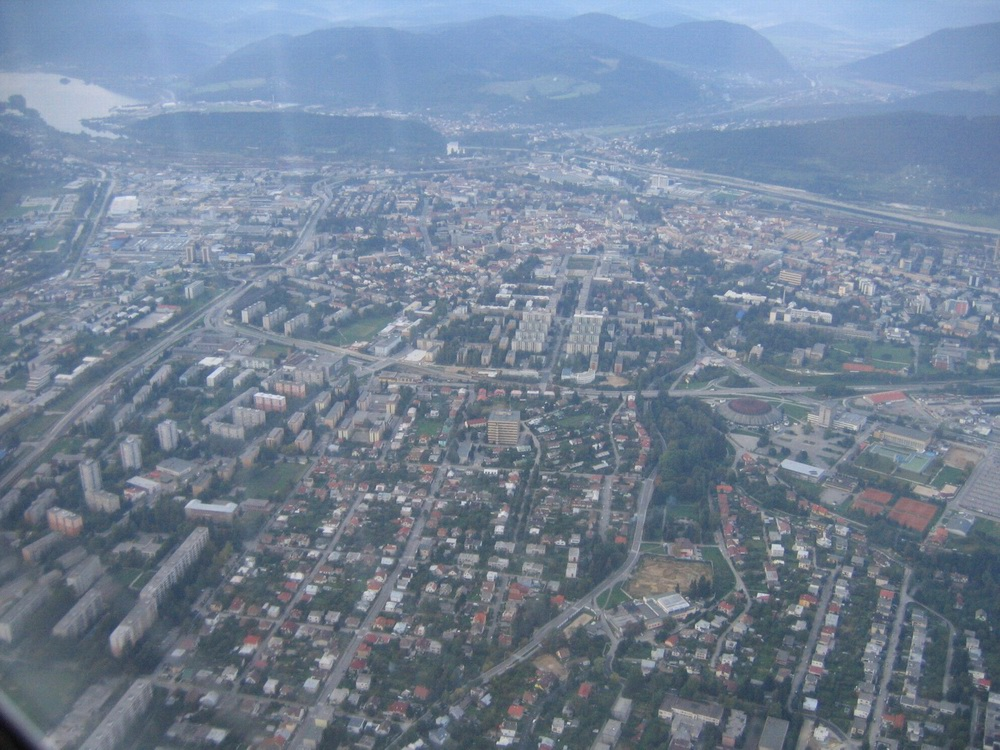 Panoramic view of Žilina.